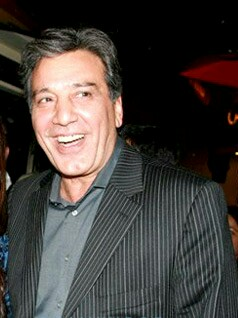 Premiere Of My Name Is Anthony Gonsalves’